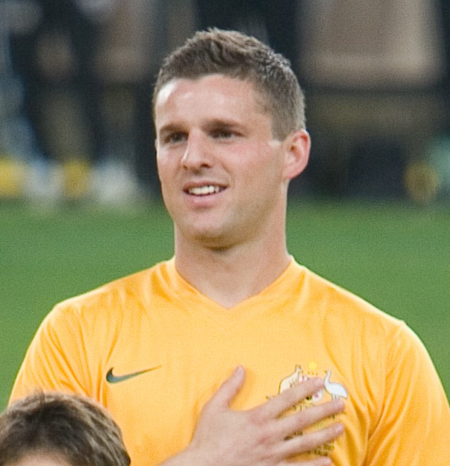 Jason Culina sings the national anthem